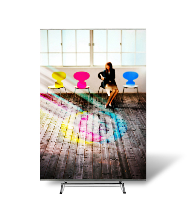 My own work